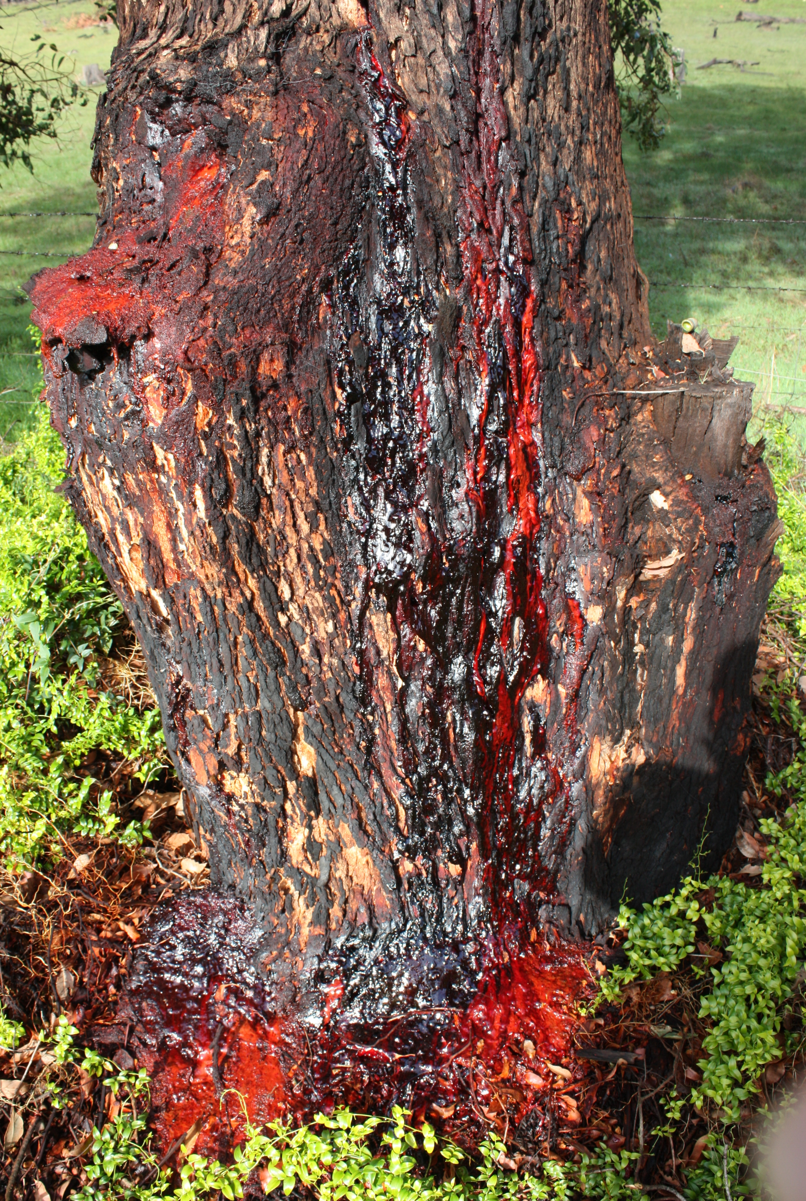 Copious flow and puddling of kino from the base of a Corymbia calophylla (Marri). This is the source of the common names "Bloodwood" and "Red Gum". The tree is located on the roadside near the intersection of South Western Highway and Brockman Highway, just south of Bridgetown, Western Australia